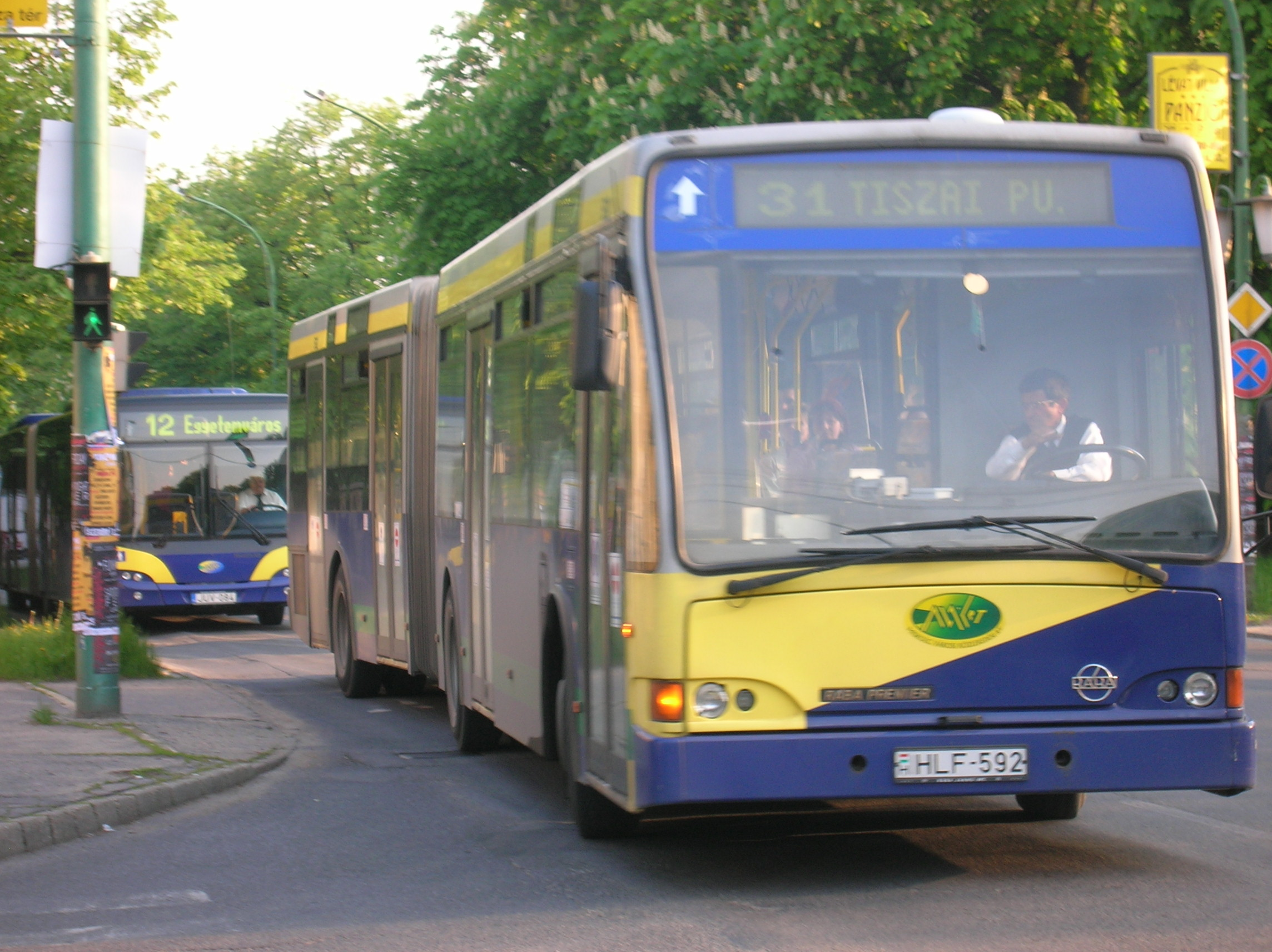 A Rába Premier type city bus at the Görgey street crossing. Miskolc, Hungary. With a new Neoplan bus in the background.